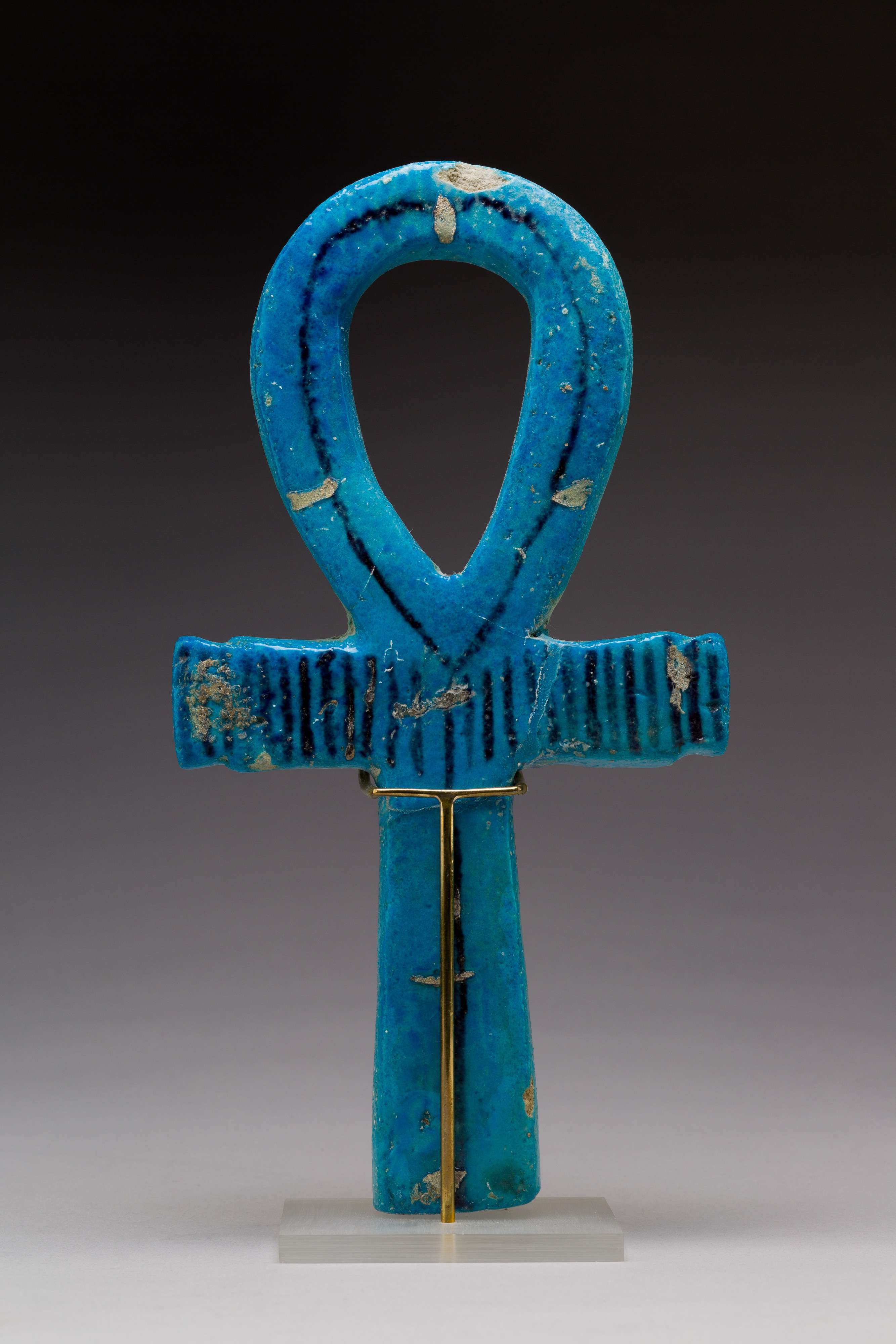 Amulet, Ankh, Thutmose IV